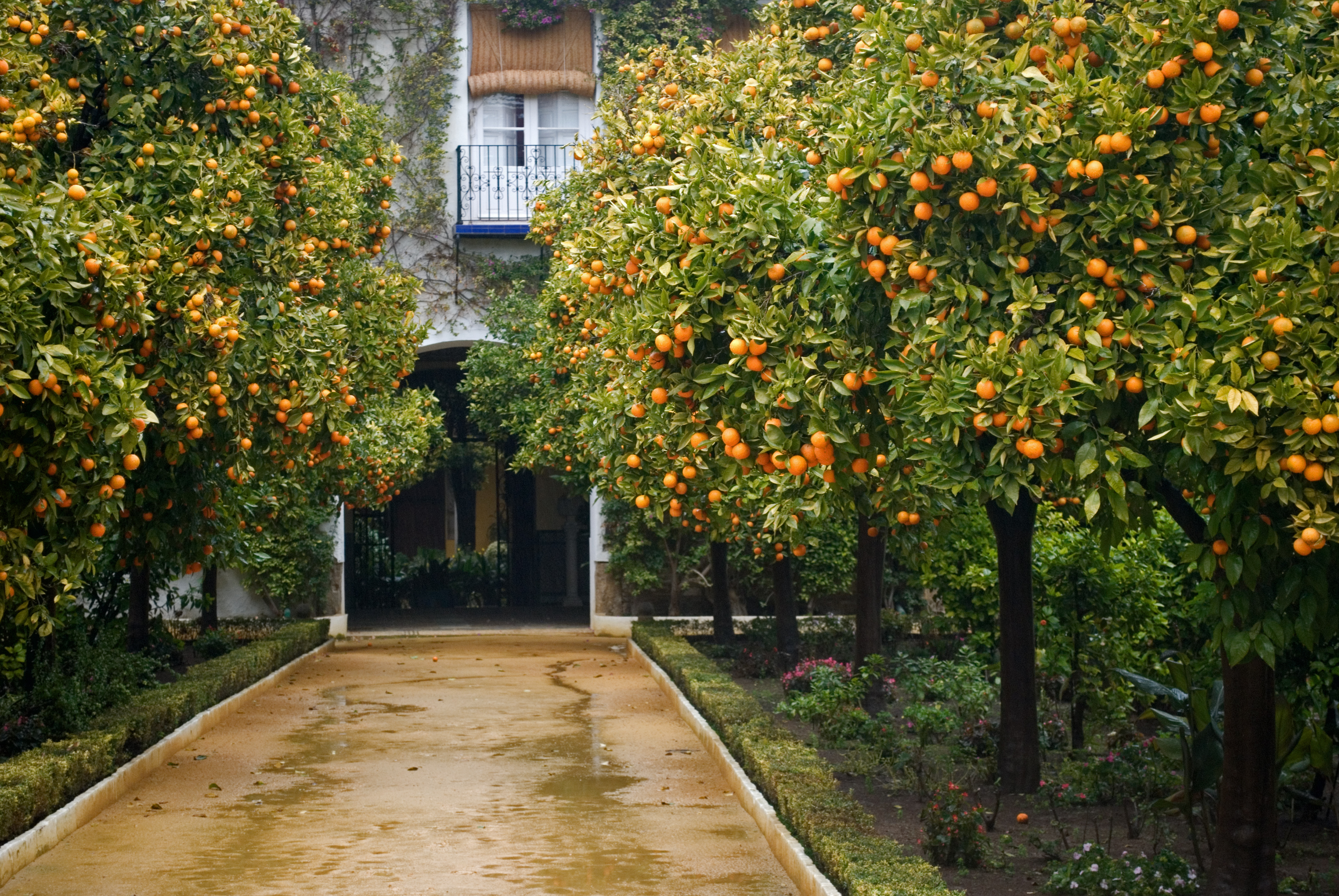 A landscape avenue of orange trees,Citrus sinensis, in the Palacio de las Duenas garden, Seville, Spain.